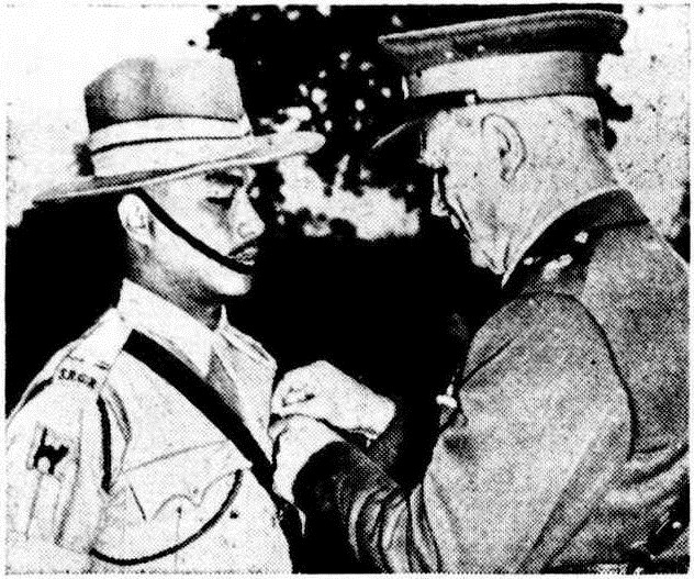 Gaje Ghale and Lord Wavell